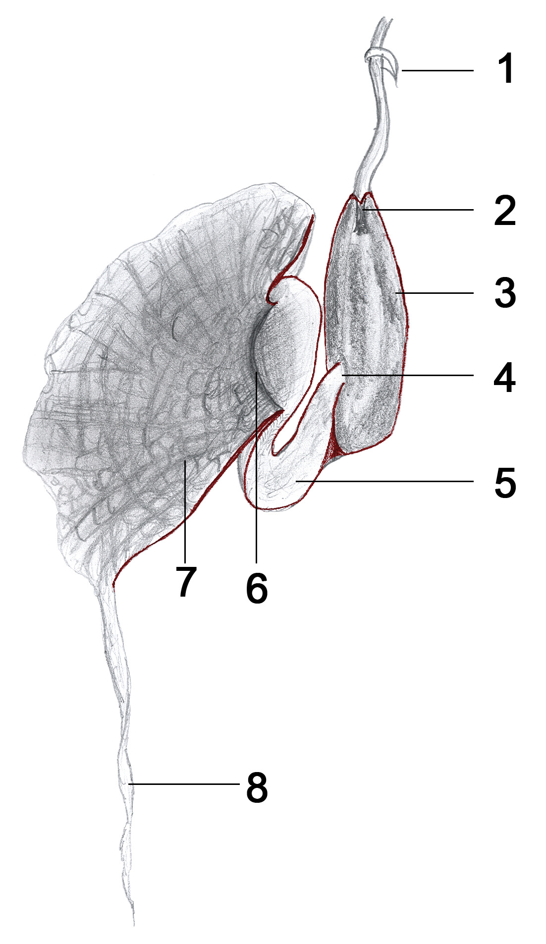 Pencil drawing of a cut through a flower of Aristolochia grandiflora. 1 Bracteole, 2 Gynostemium, 3 Utricle, 4 Syrinx, 5 Tube, 6 Anulus, 7 Limb, 8 Appendix